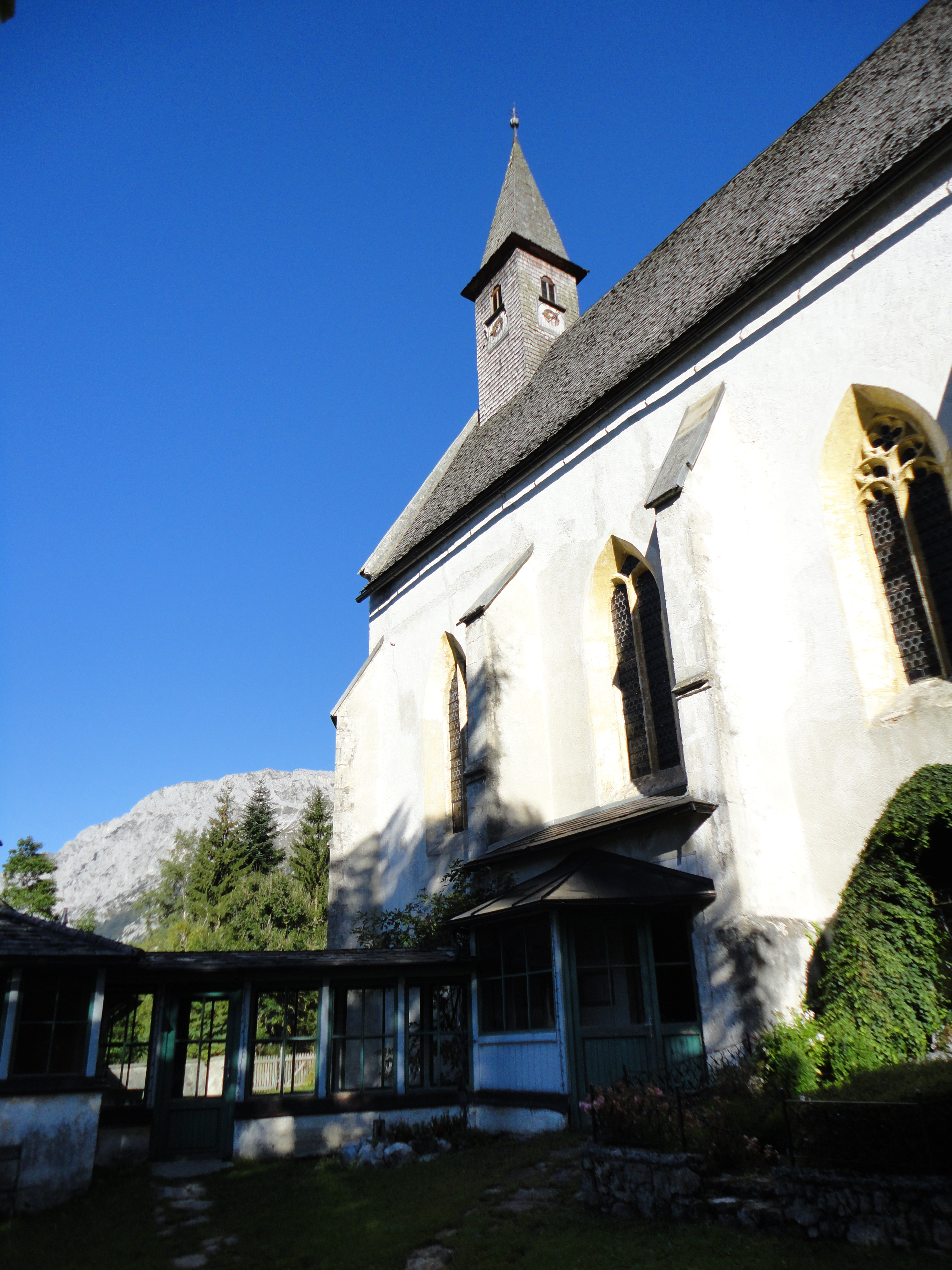 Parish church of Seewiesen (Styria)